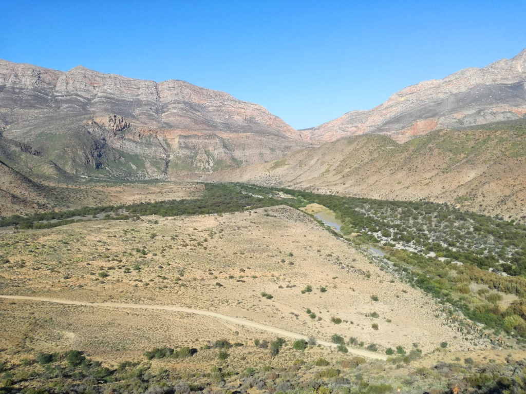 Die Hel Gamkaskloof